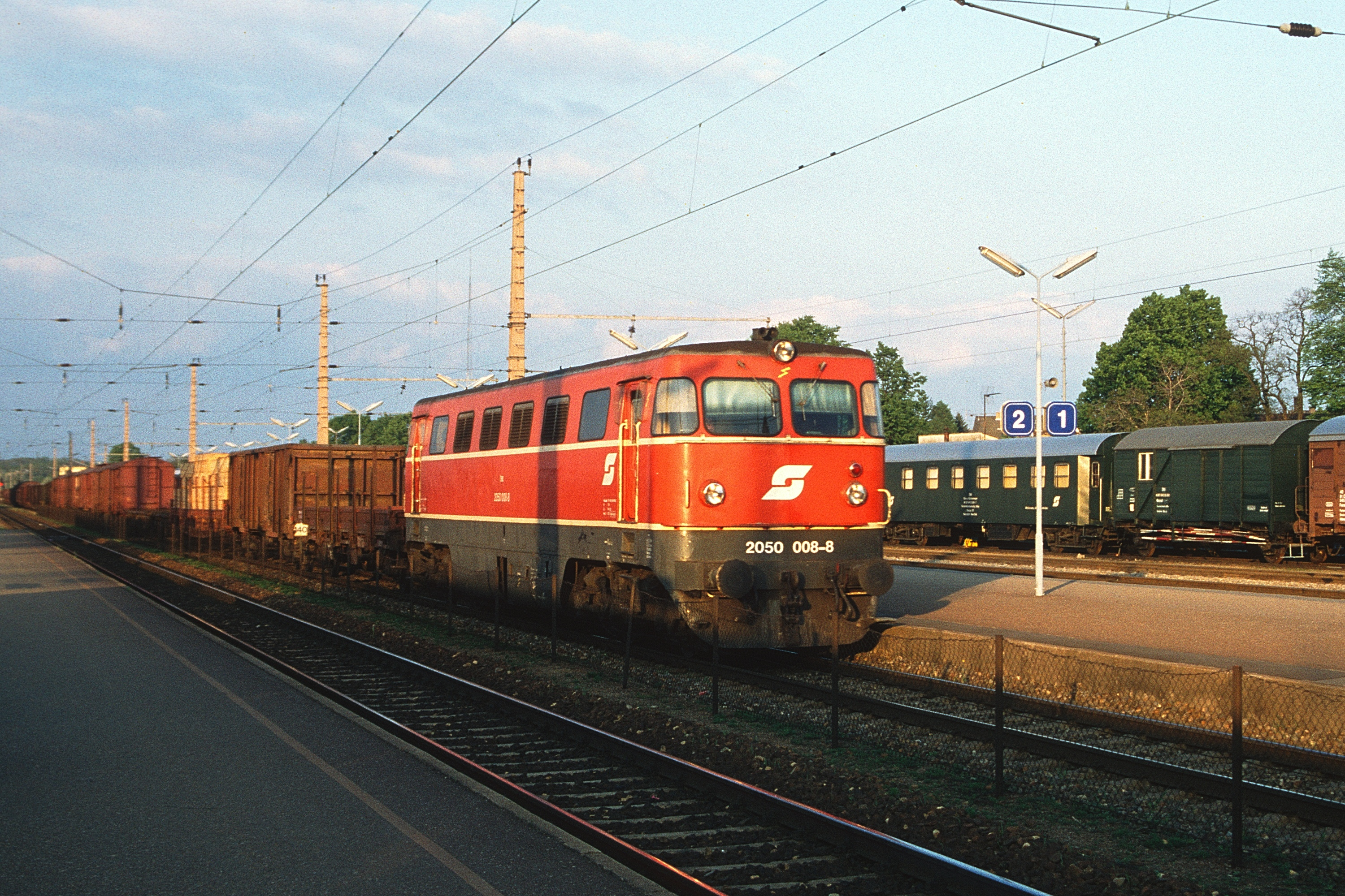 ÖBB 2050 008-8 passing Gänserndorf station with a goods train. (scan from slide)